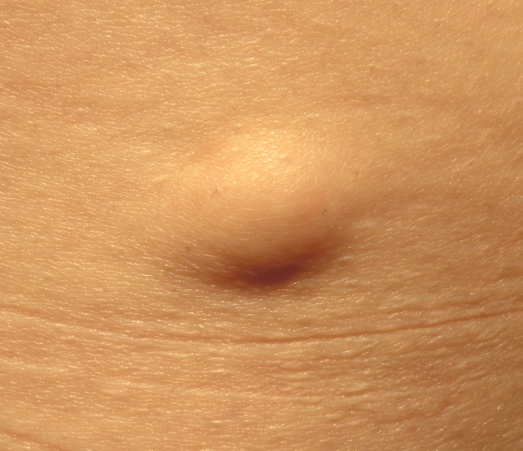 Superficial subcutaneous lipoma